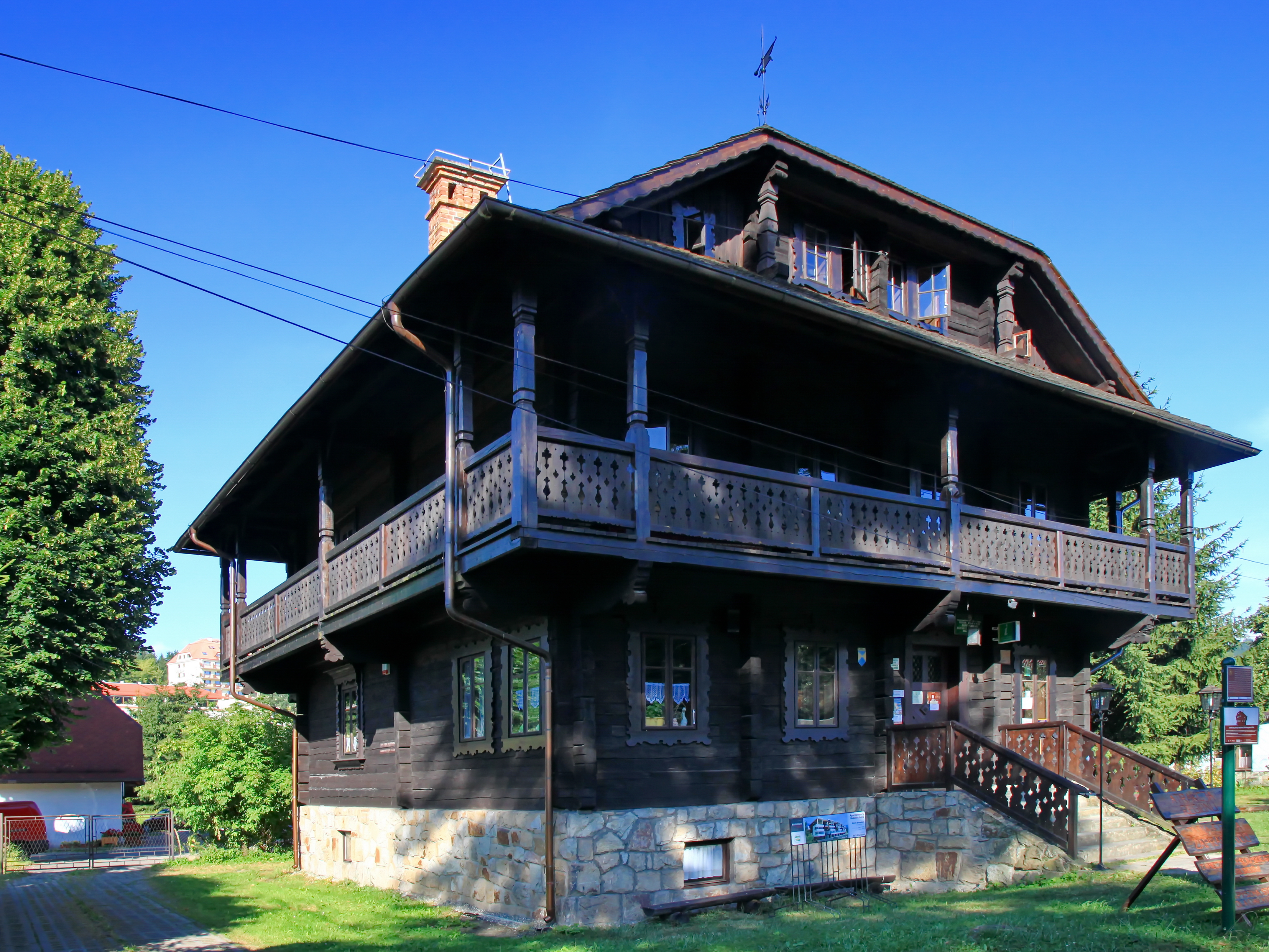 Wisła, former Habsburg Hunting Palace, now seat of PTTK, build in 1897